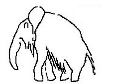 Cave of Arcy-sur-Cure (Yonne, Burgundy, France). Mammoth engraved in the Horse cave. Hand-copy of Gérard Bailloud's front cover for his article "L'art paléolithique" (1946). The engravings in the Horse cave were discovered on Feb. 15, 1946 by speleologists René Bourreau, Marcel Papon and Gérard Méraville.